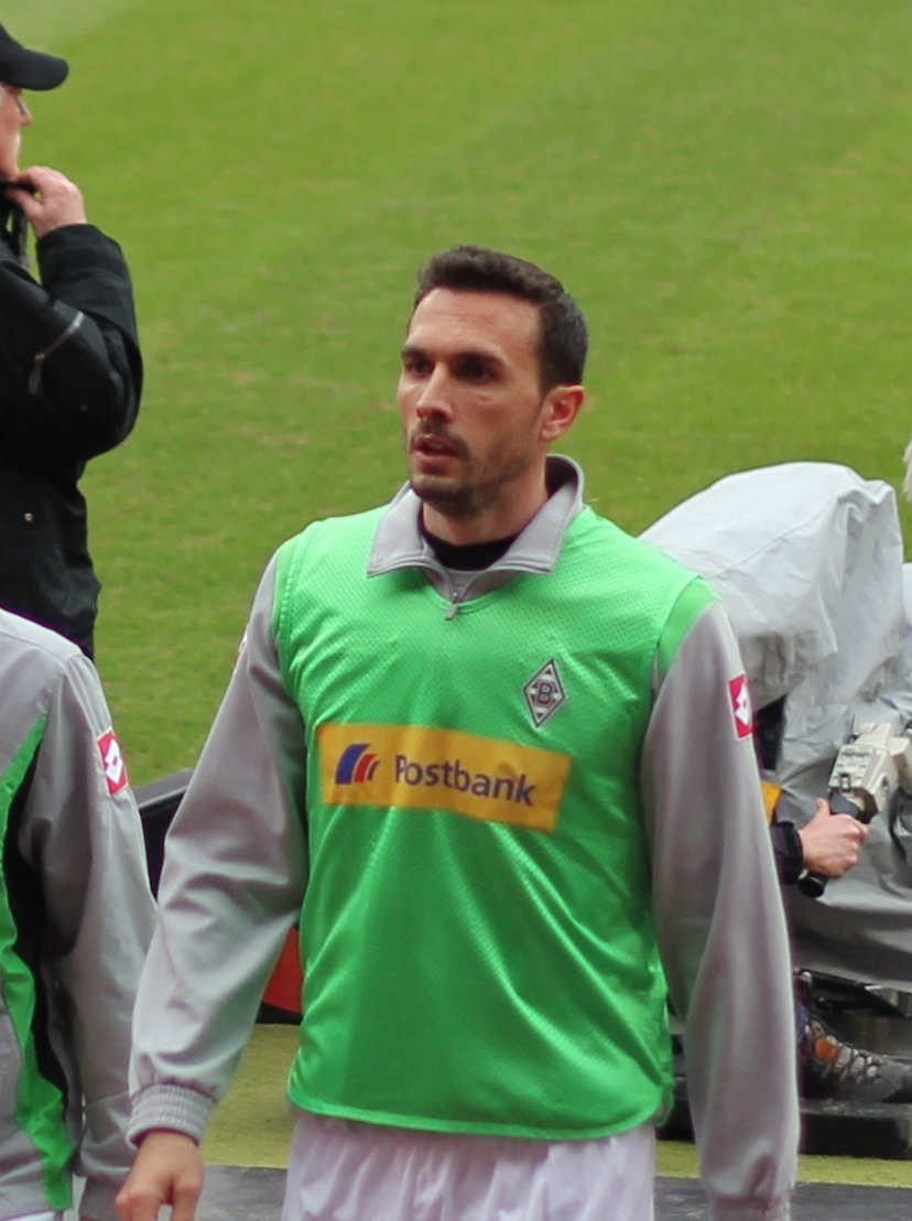 Martin Stranzl, football player for German side Borussia Mönchengladbach, 2011/12 season